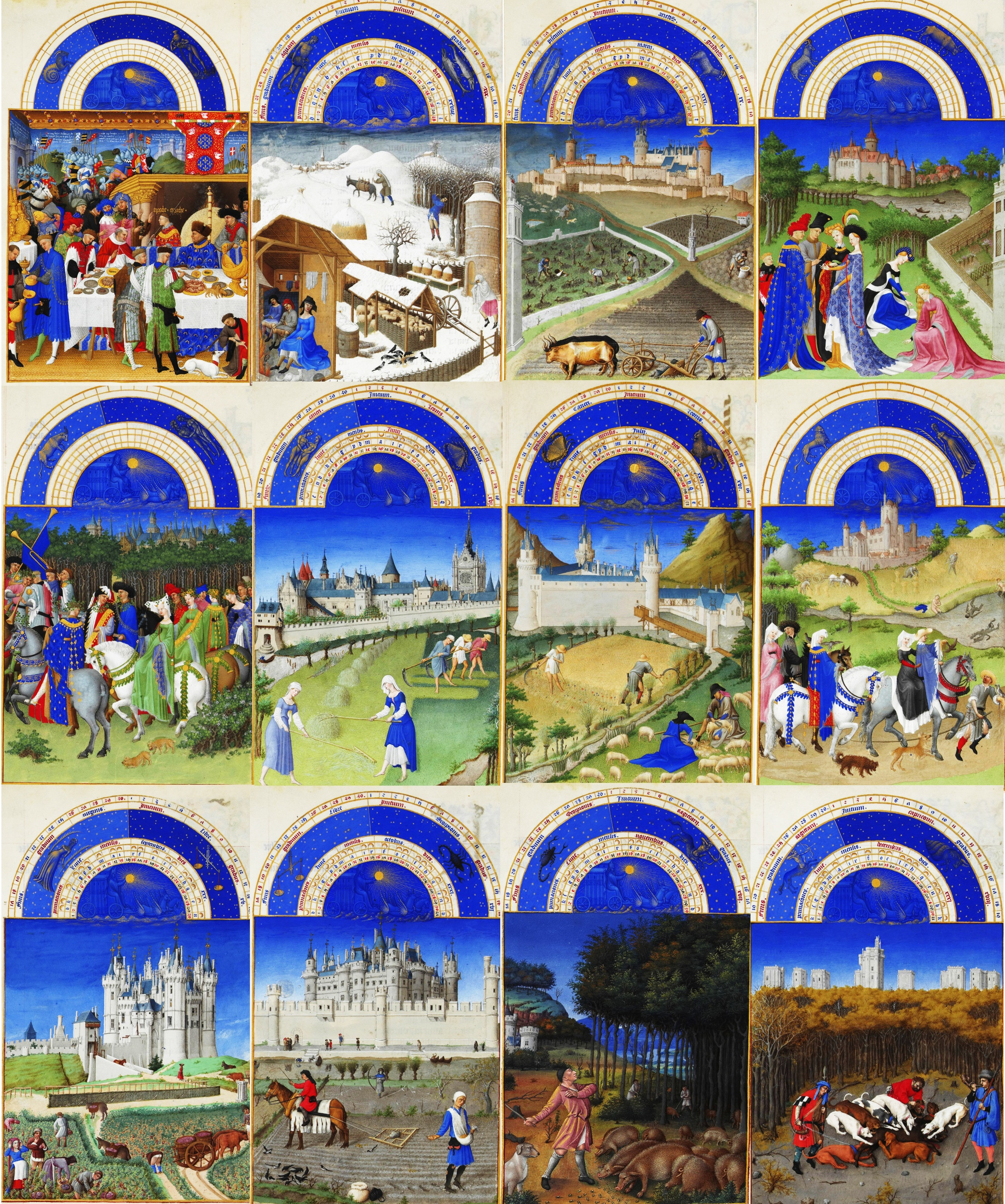 Labors of the months in Tres Riches Heures du Duc de Berry